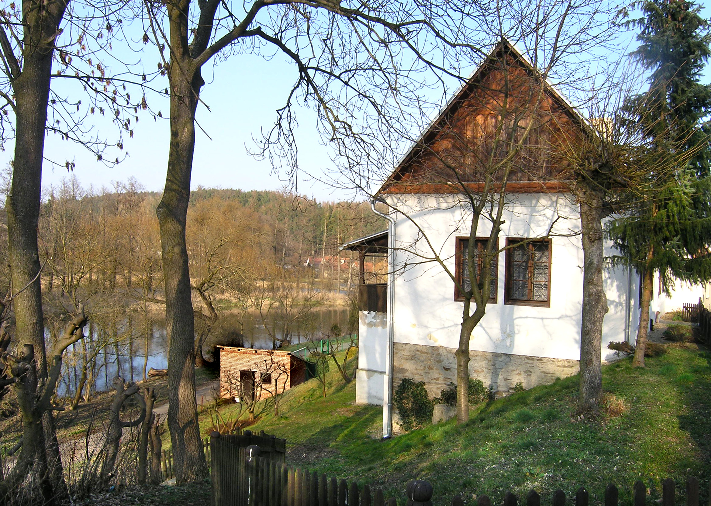 Mikoláš Aleš birth house at Mirotice, South Bohemia, with Lomnice river